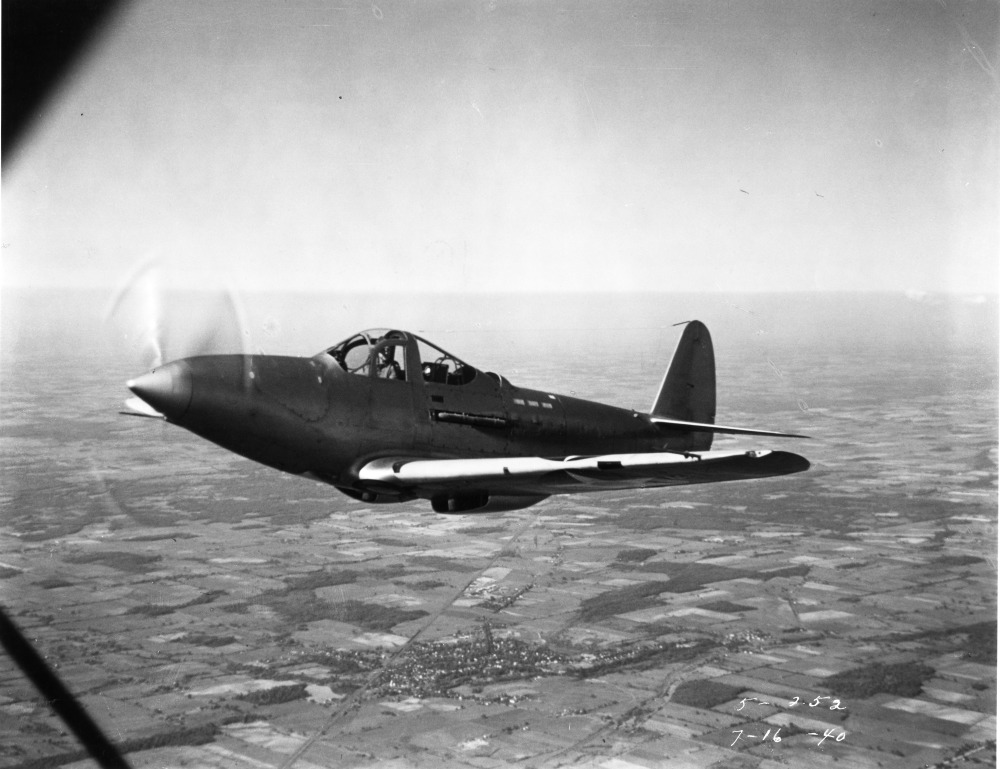 PictionID:41545206 - Title:Ray Wagner Collection Image - Catalog:16_000455 Bell XFL-1 1588 mfg - Filename:16_000455 Bell XFL-1 1588 mfg.tif - - - Image from the Ray Wagner Collection. Ray Wagner was Archivist at the San Diego Air and Space Museum for several years and is an author of several books on aviation --- ---Please Tag these images so that the information can be permanently stored with the digital file.---Repository: San Diego Air and Space Museum